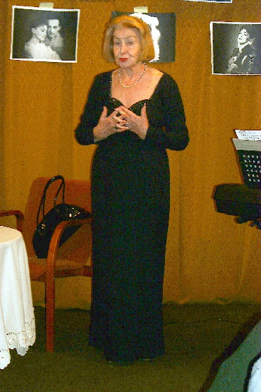 This image has been copied from the source with the permision of webmaster (and with the consent of the director of the service). The permission was granted to Stan Zurek (Zureks) via email from Mirosław Domański Nina Andrycz